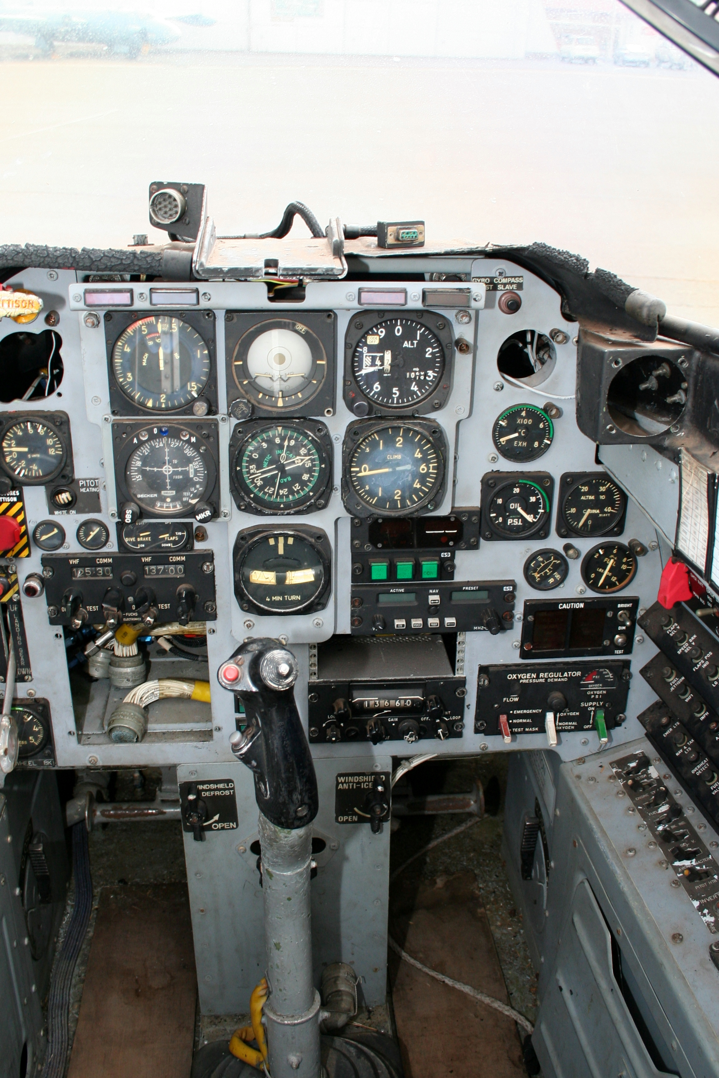 Aermacchi MB-326 Front Seat Cockpit